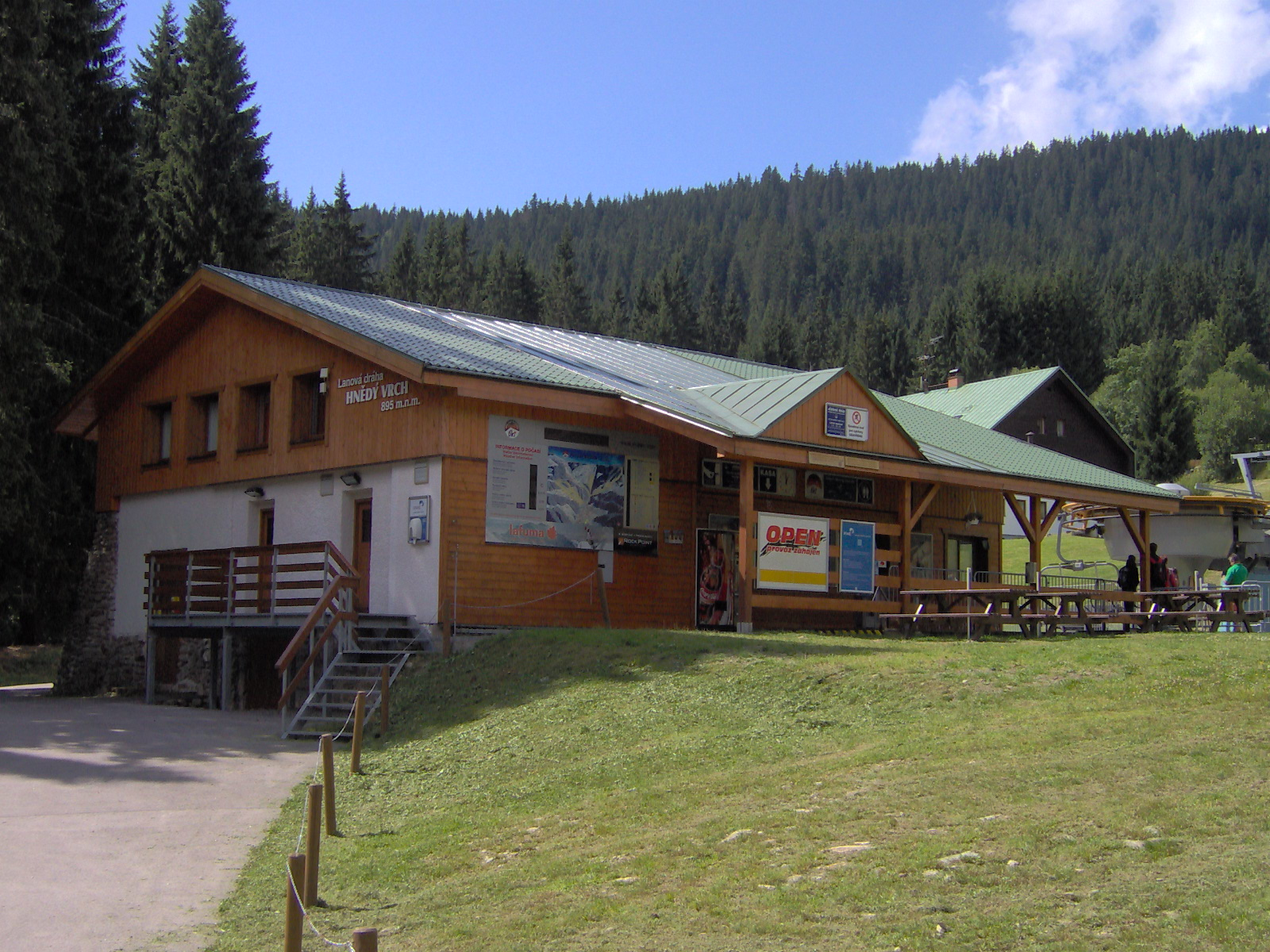 Chairlift Pec pod Sněžkou - Hnědý vrch, lower station Pec pod Sněžkou